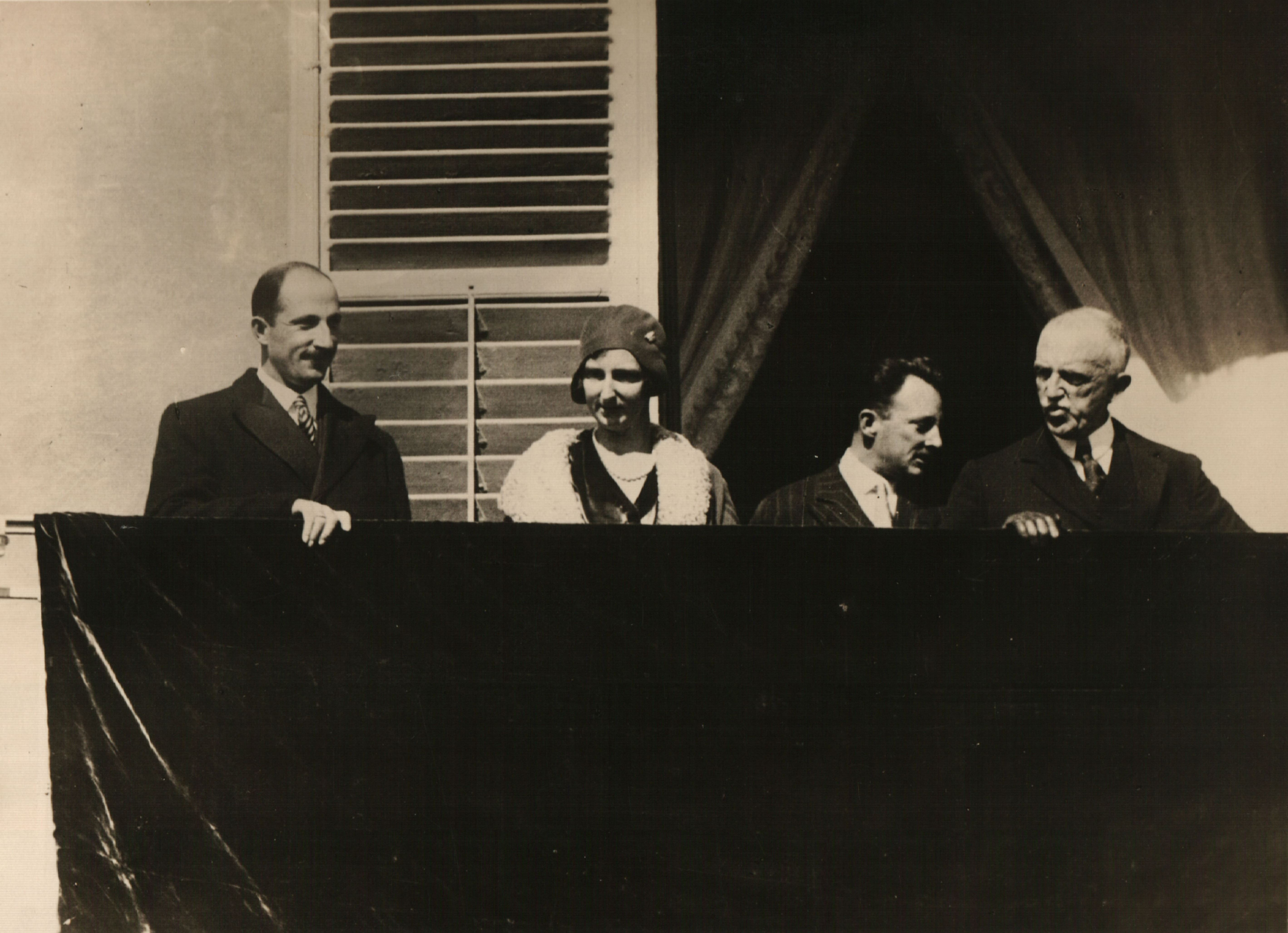 Boris III of Bulgaria, Giovanna of Italy, Prince Kiril of Bulgaria, Vittorio Emanuele III